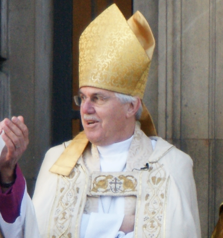 Bishops of the Diocese of Chelmsford